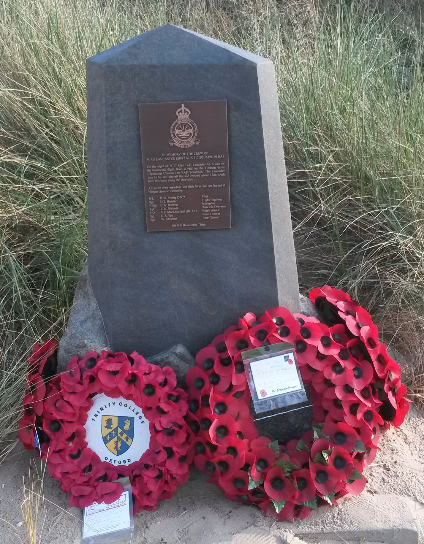 Remembrance monument to the crew of ED887 AJ-1 617 Squadron. Castricum aan Zee, The Netherlands.